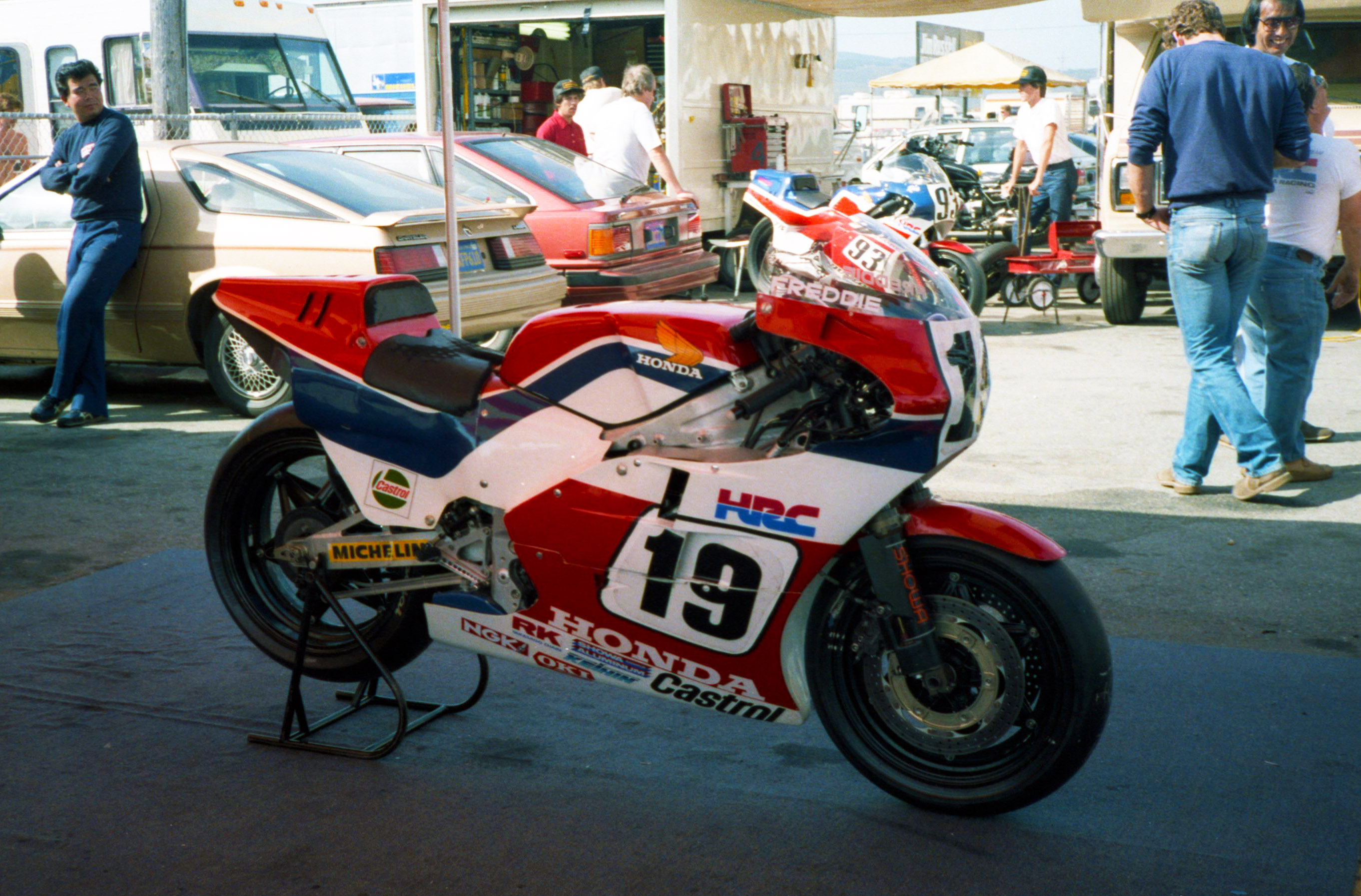 Freddie Spencer's NS500